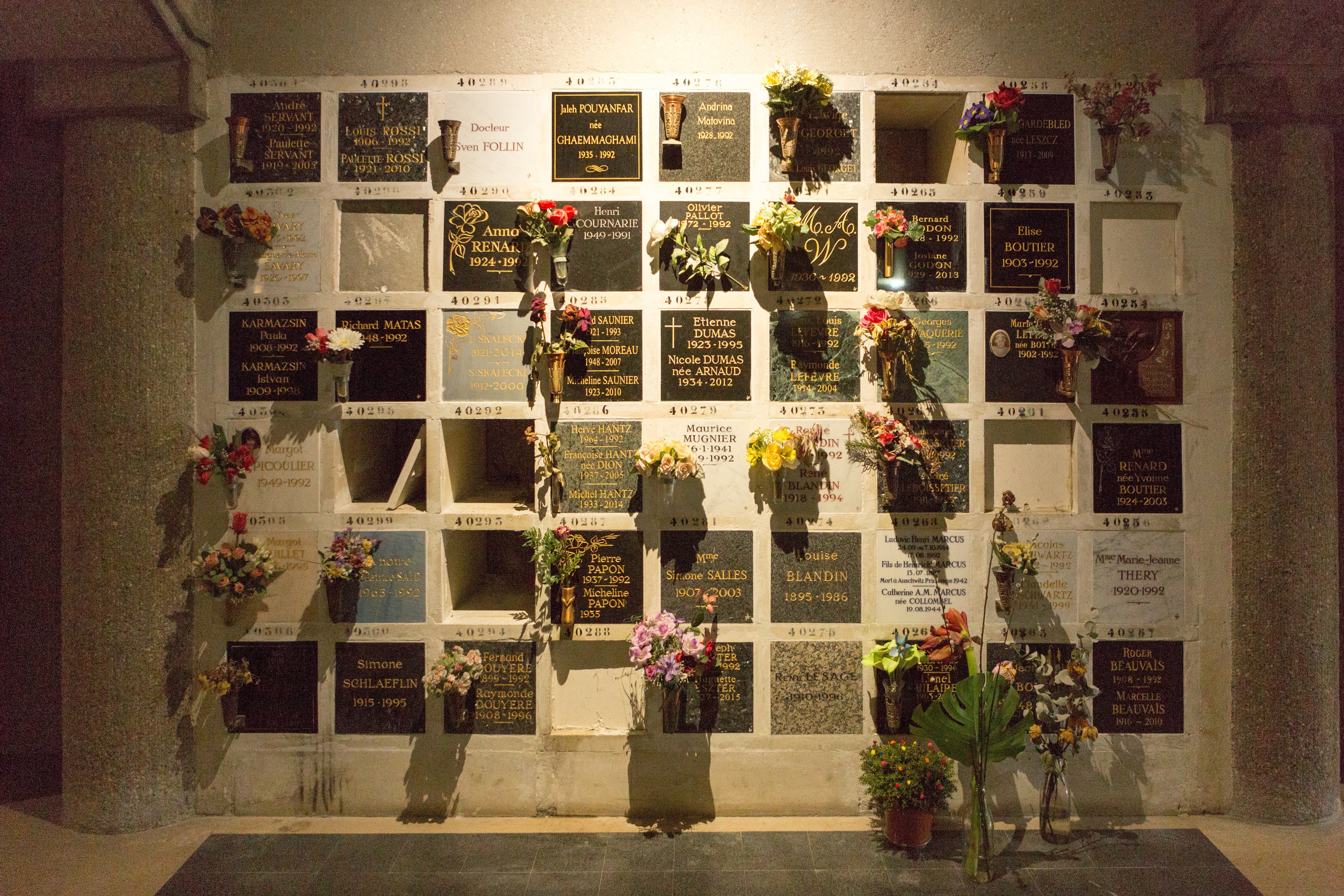 Père-Lachaise Cemetery